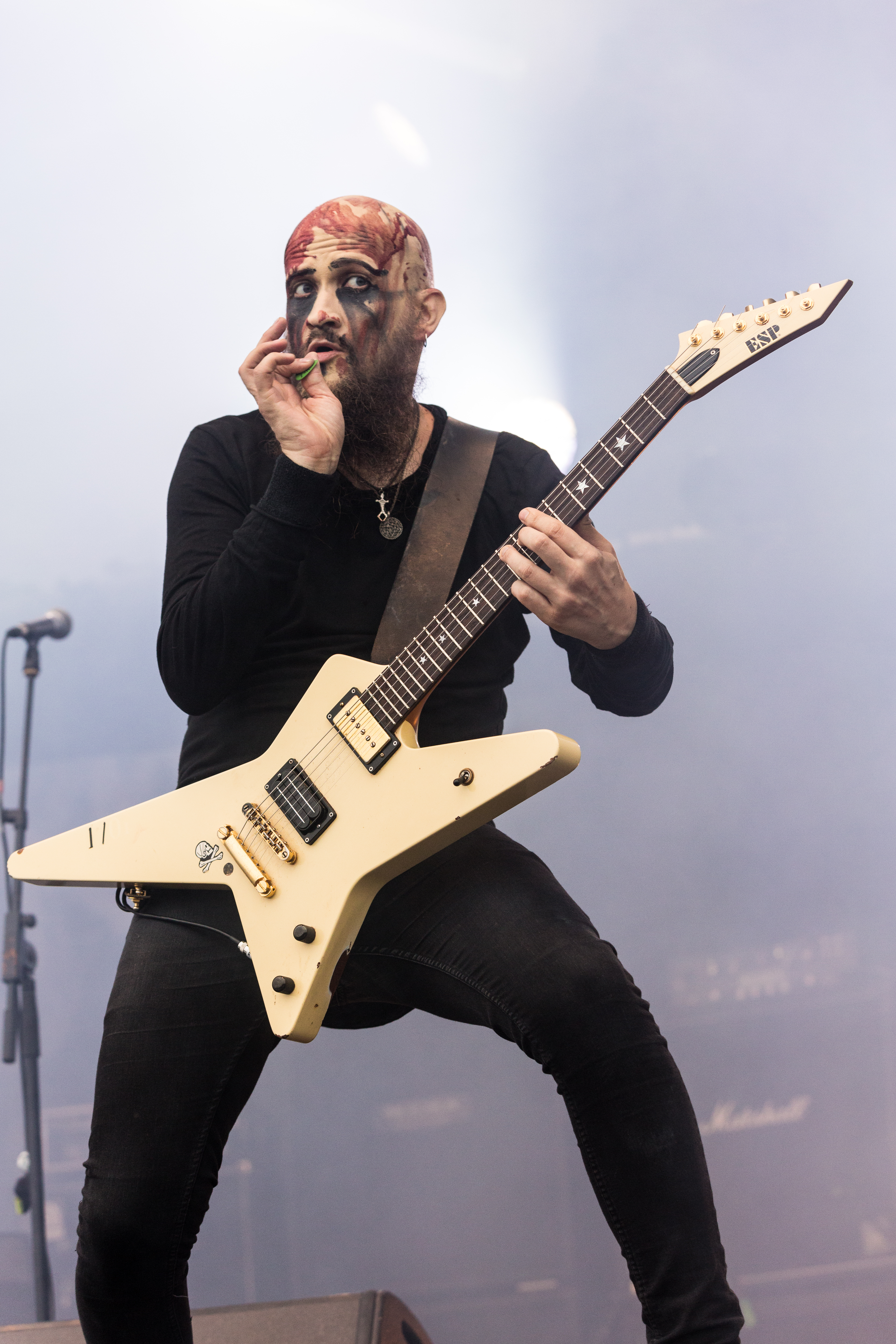 The Finnish pagan black metal band Moonsorrow at the Party.San Metal Open Air 2017 in Obermehler-Schlotheim/Germany.